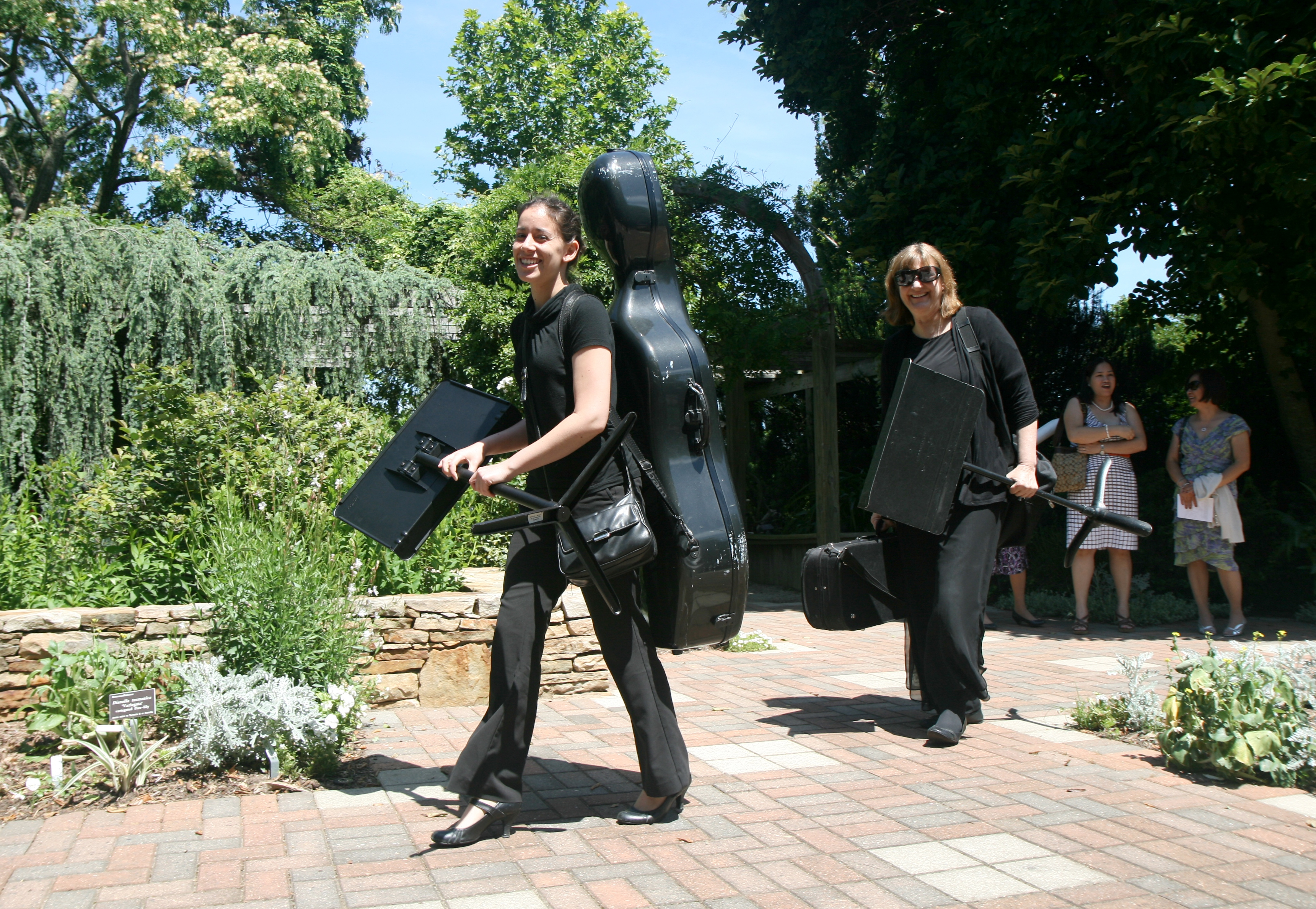 Musicians leaving after playing at a wedding held at the J. C. Raulston Arboretum in Raleigh, North Carolina.